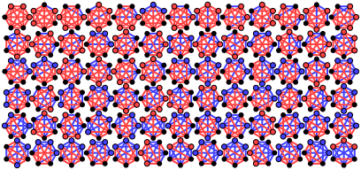 Friends and Strangers Graph Theorem explain.